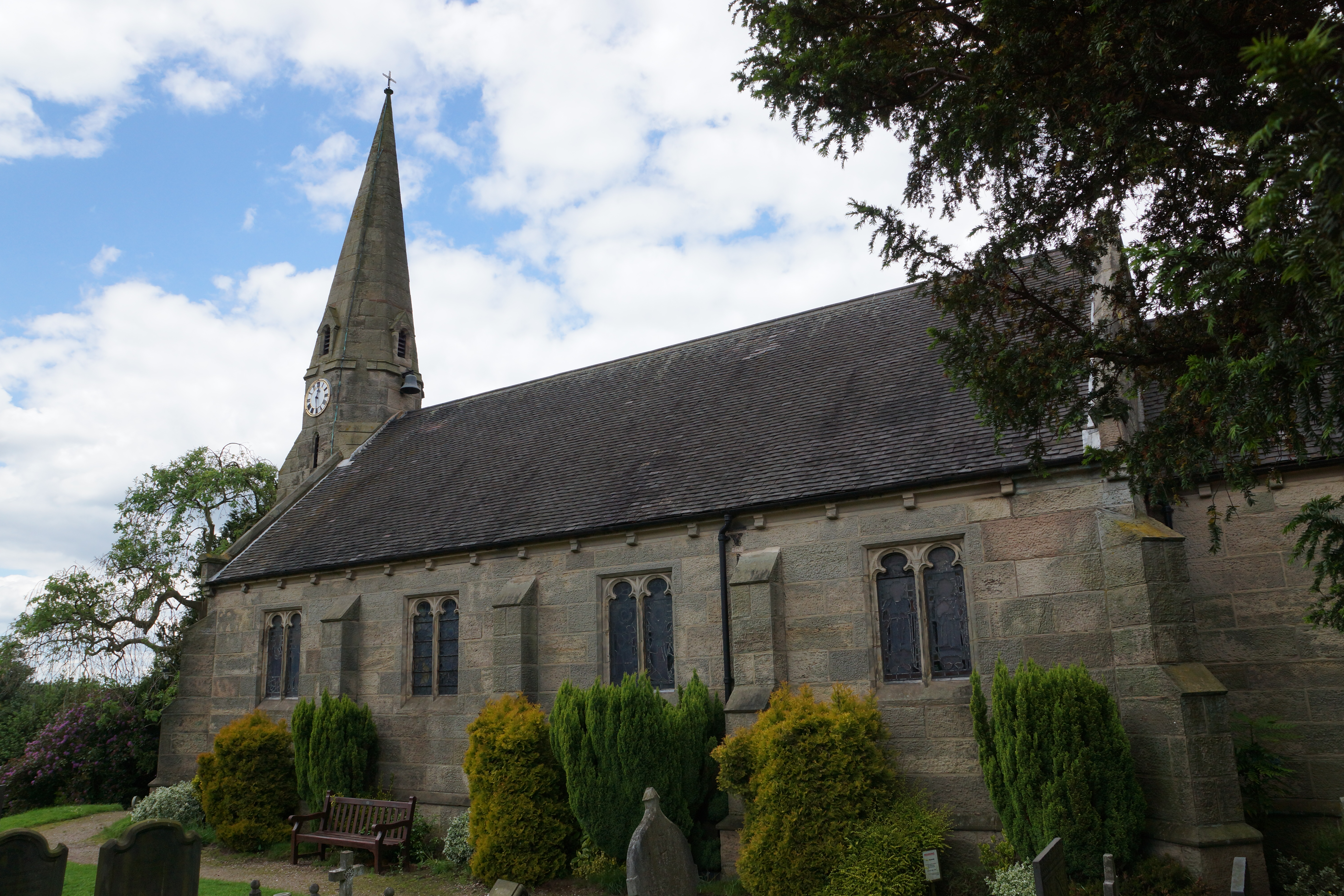 Parish church of St John the Baptist Wall, Staffordshire, seen from the southeast